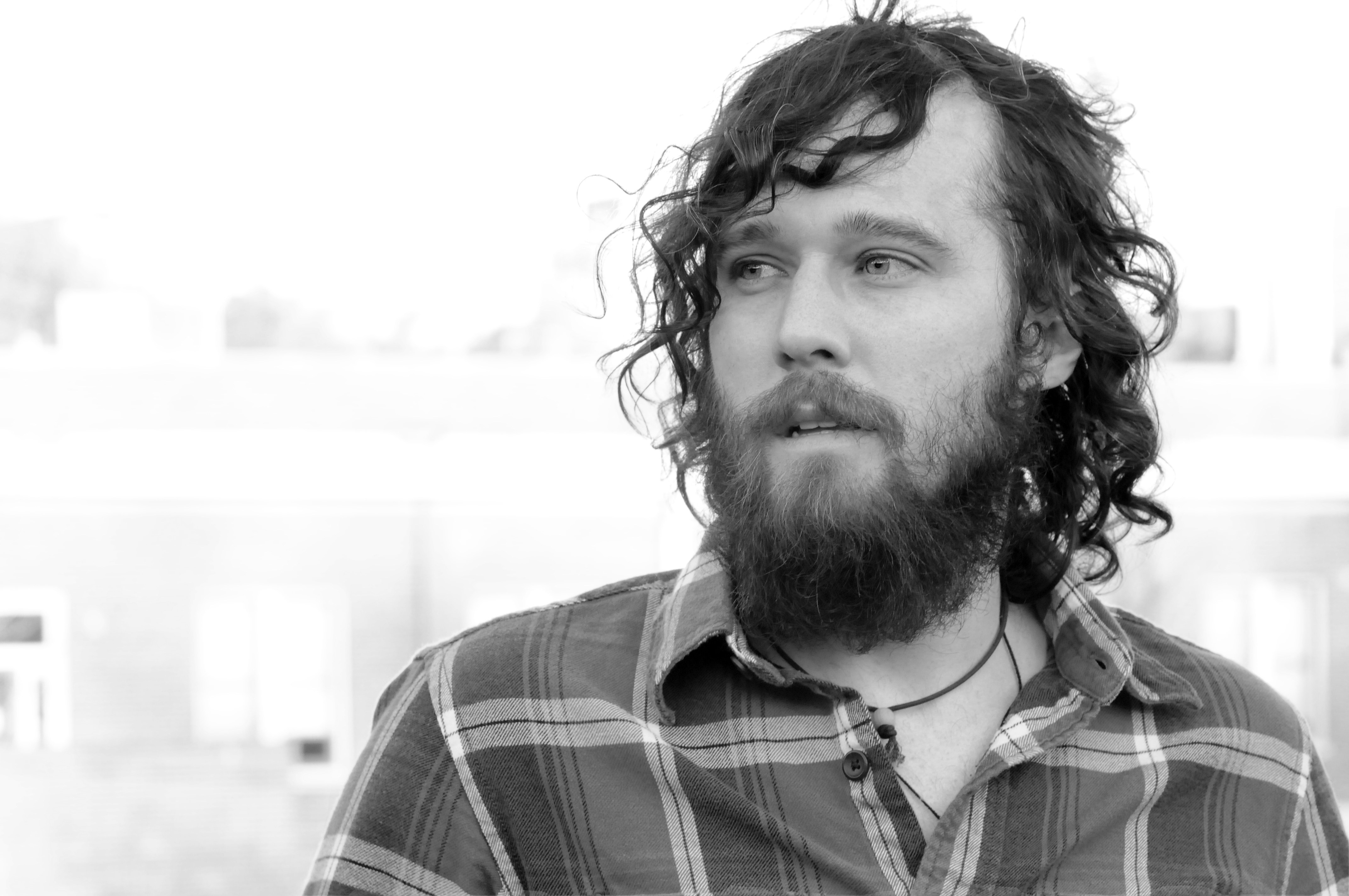 Artemus James February 2011